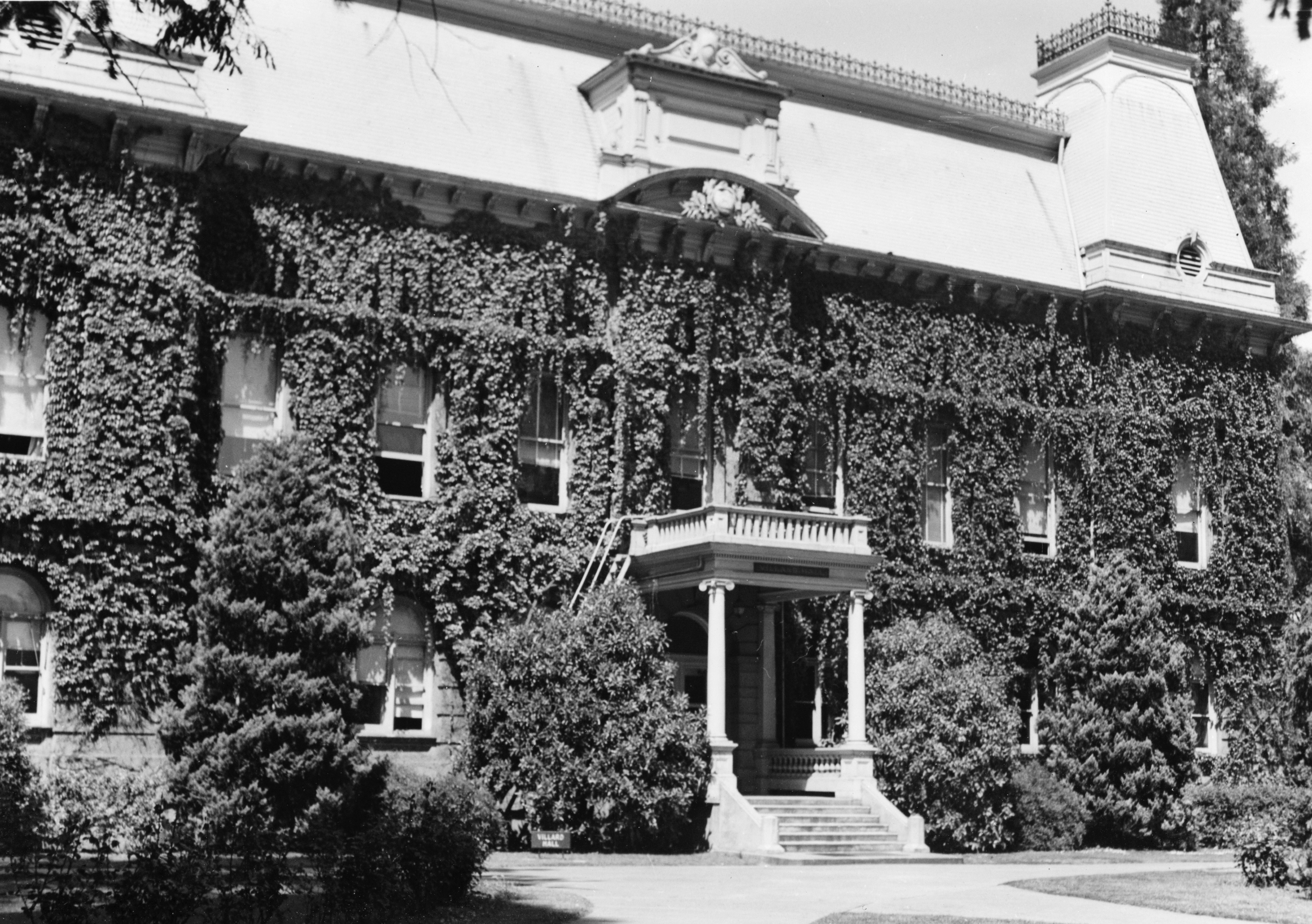 Villard Hall East Entrance, University of Oregon Campus, Eugene, Lane County, OR.